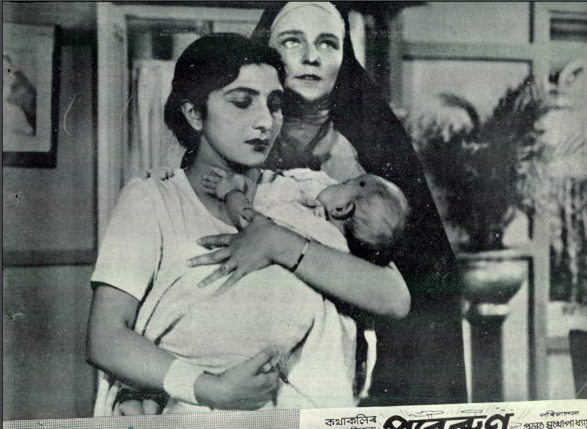 Poster of Assamese film 'Puberun'. This film was released in 1959.